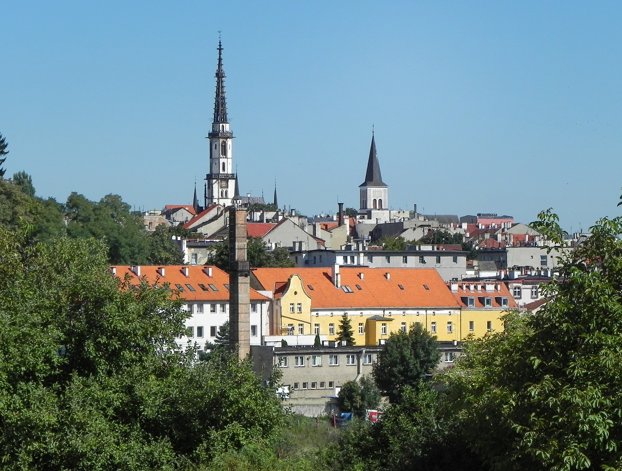 Historic center of Ząbkowice Śląskie